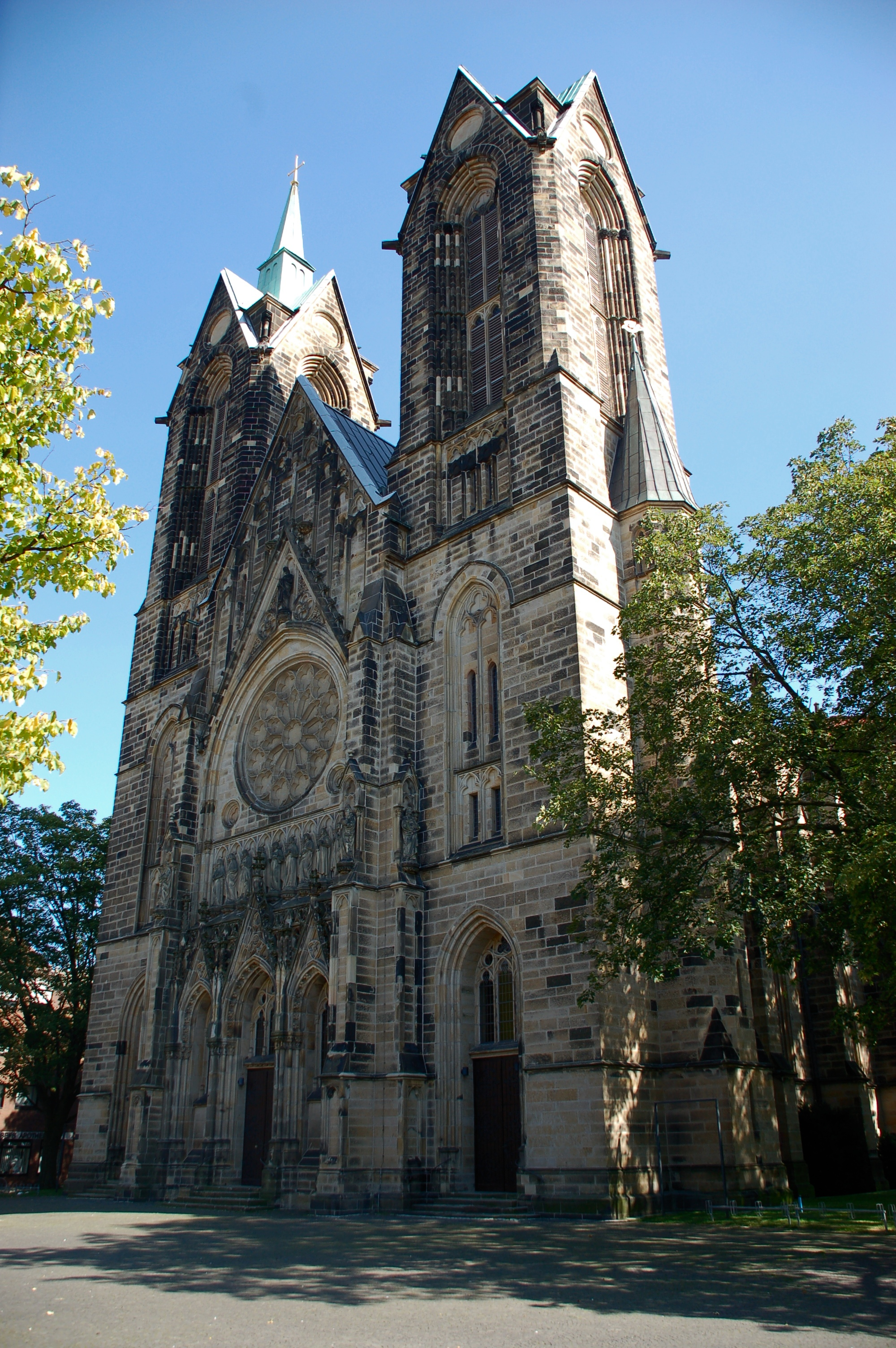 Front of the St. Joseph Church in Münster